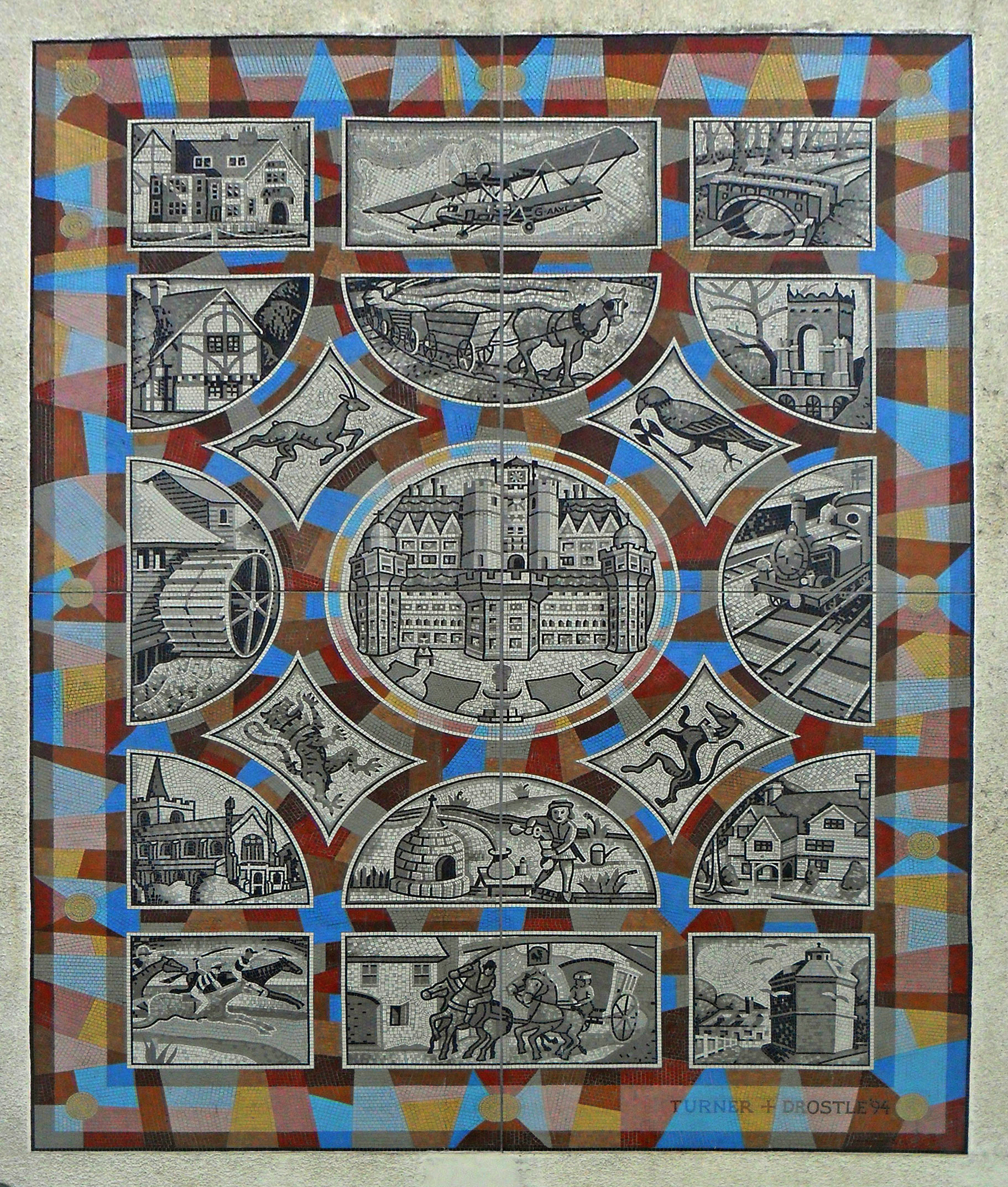 Version of original with perspective changed